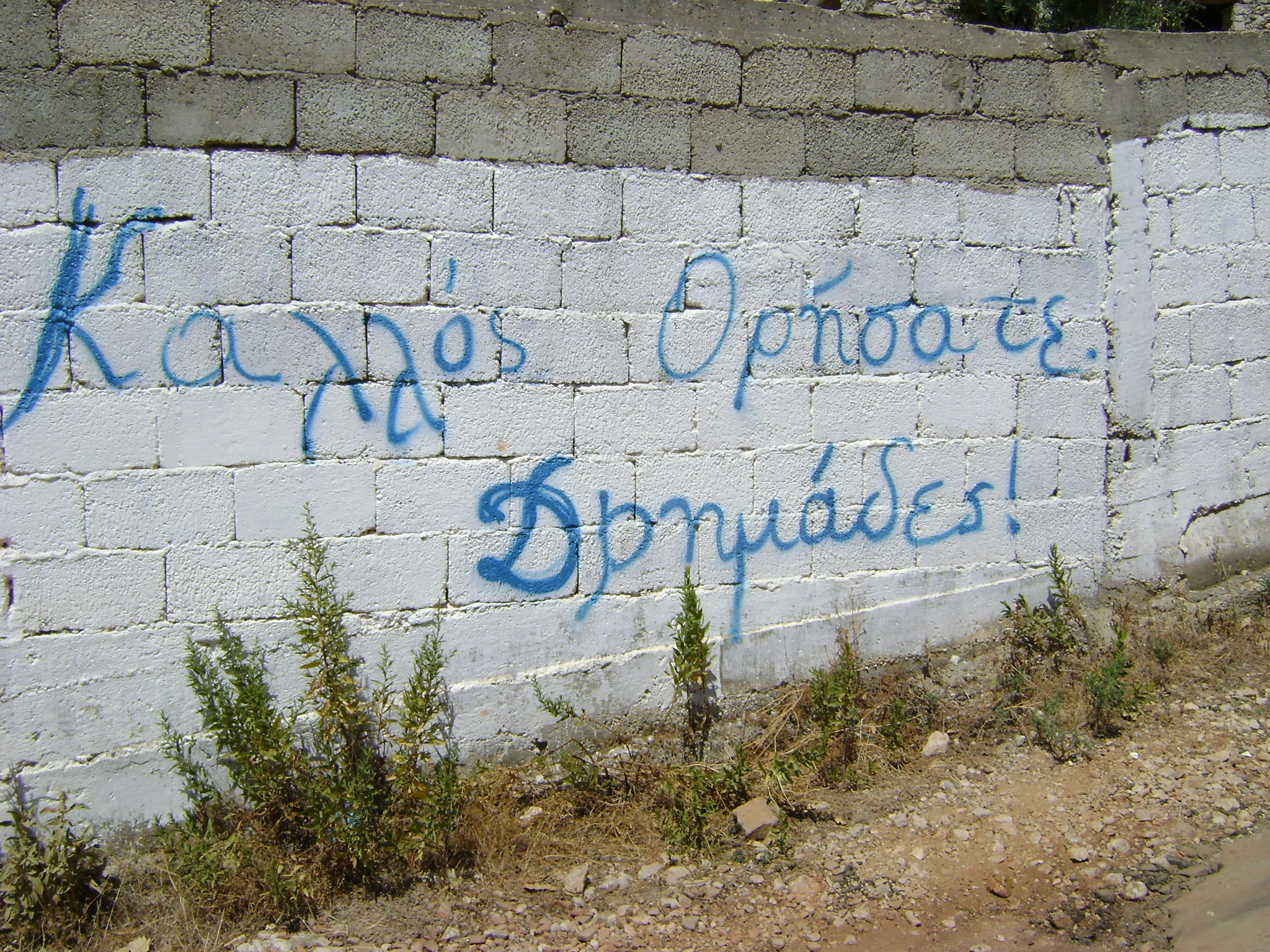 Wall with Greek writing ("Welcome to Dhermi") in Dhërmi, Albania